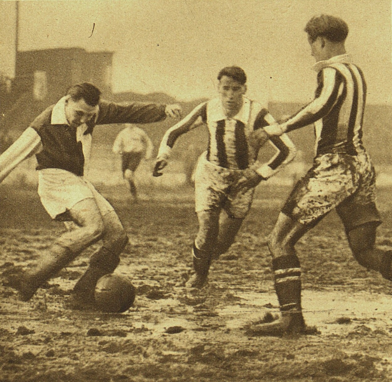 Czechoslovak league football match Slavia Praha-Viktoria Žižkov in 1933.